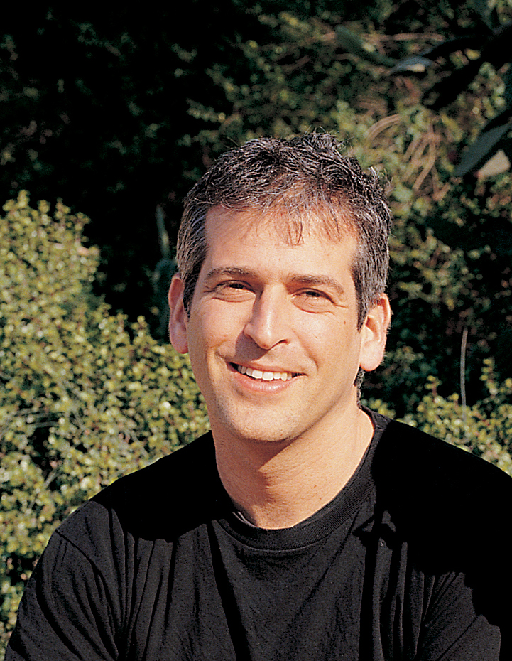 Uri Alon Professor of Molecular Biology at Weizmann Institute of Science